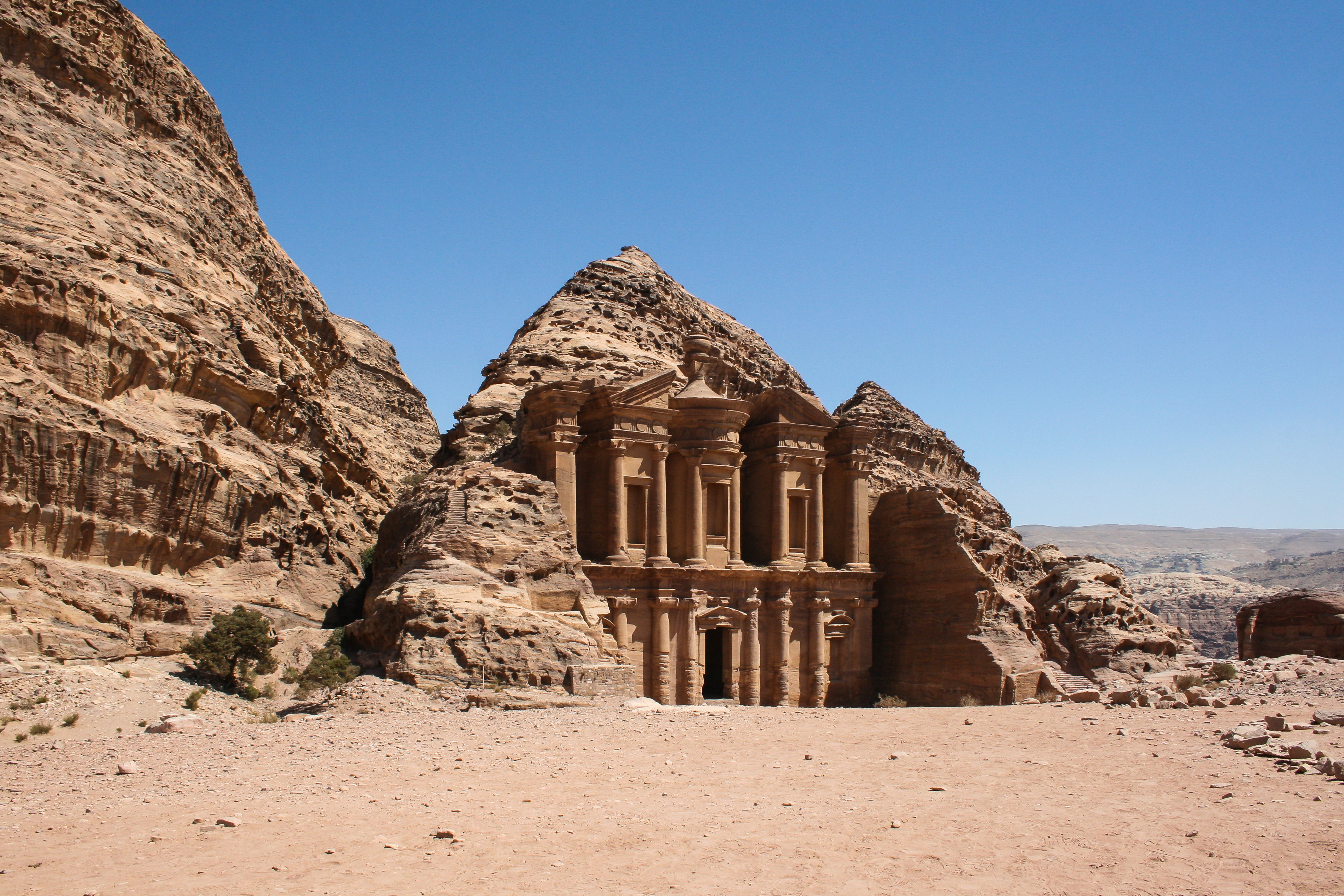 The Monastery, Petra, Jordan